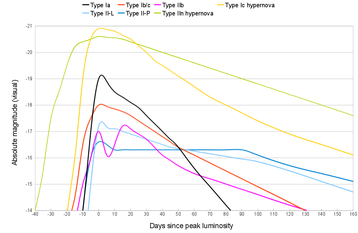 The light curve of a typical highly luminous type Ic supernova and a typical highly luminous type IIn supernova are shown to the same scale as more normal supernovas of each type. The light curves are centred on the date of peak luminosity.